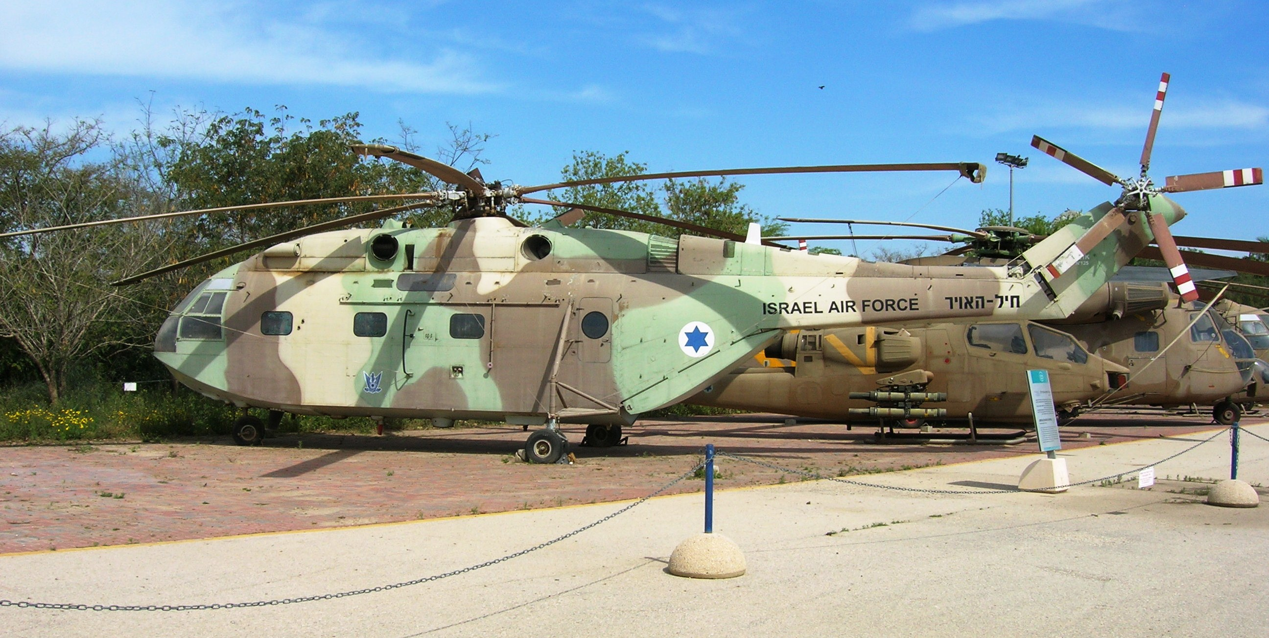 Aerospatiale Sid-Aviation SA-321K Super-Frelon Helicopter